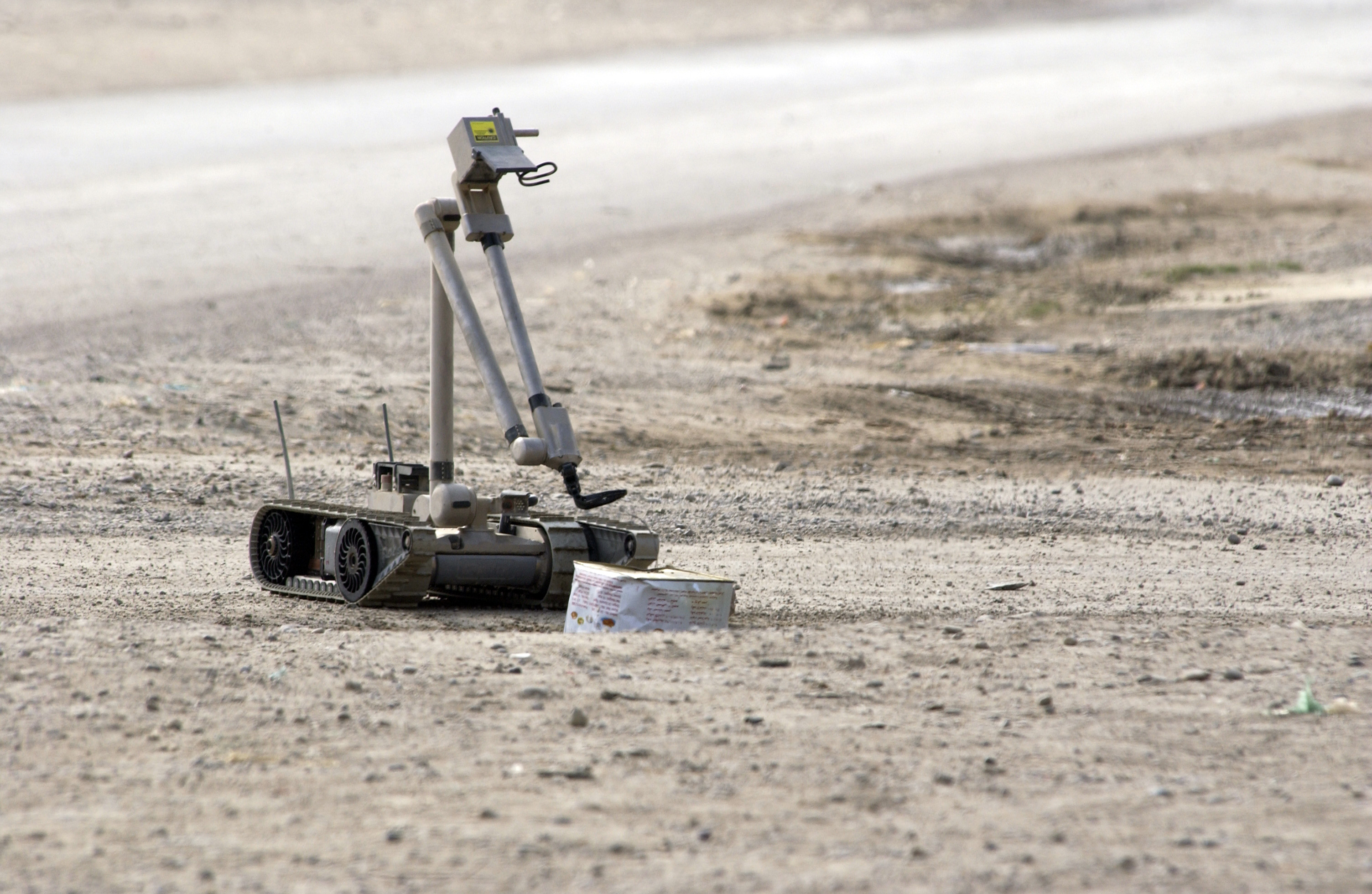 Samarra, Iraq (Nov. 3, 2004) - A U.S. Army explosive ordnance disposal (EOD) robot, “i-Robot”, pulls the wire of an alleged improvised explosive device (IED), found by the Iraqi Police. Controlled by a team of Soldiers assigned to 731st Ordnance Company, of Wright-Patterson Air Force Base, Ohio, “i-Robot” safely surveys the device at a safe distance with its two on-board cameras and mechanical arm. U.S. Navy photo by Journalist 1st Class Jeremy L. Wood (RELEASED)